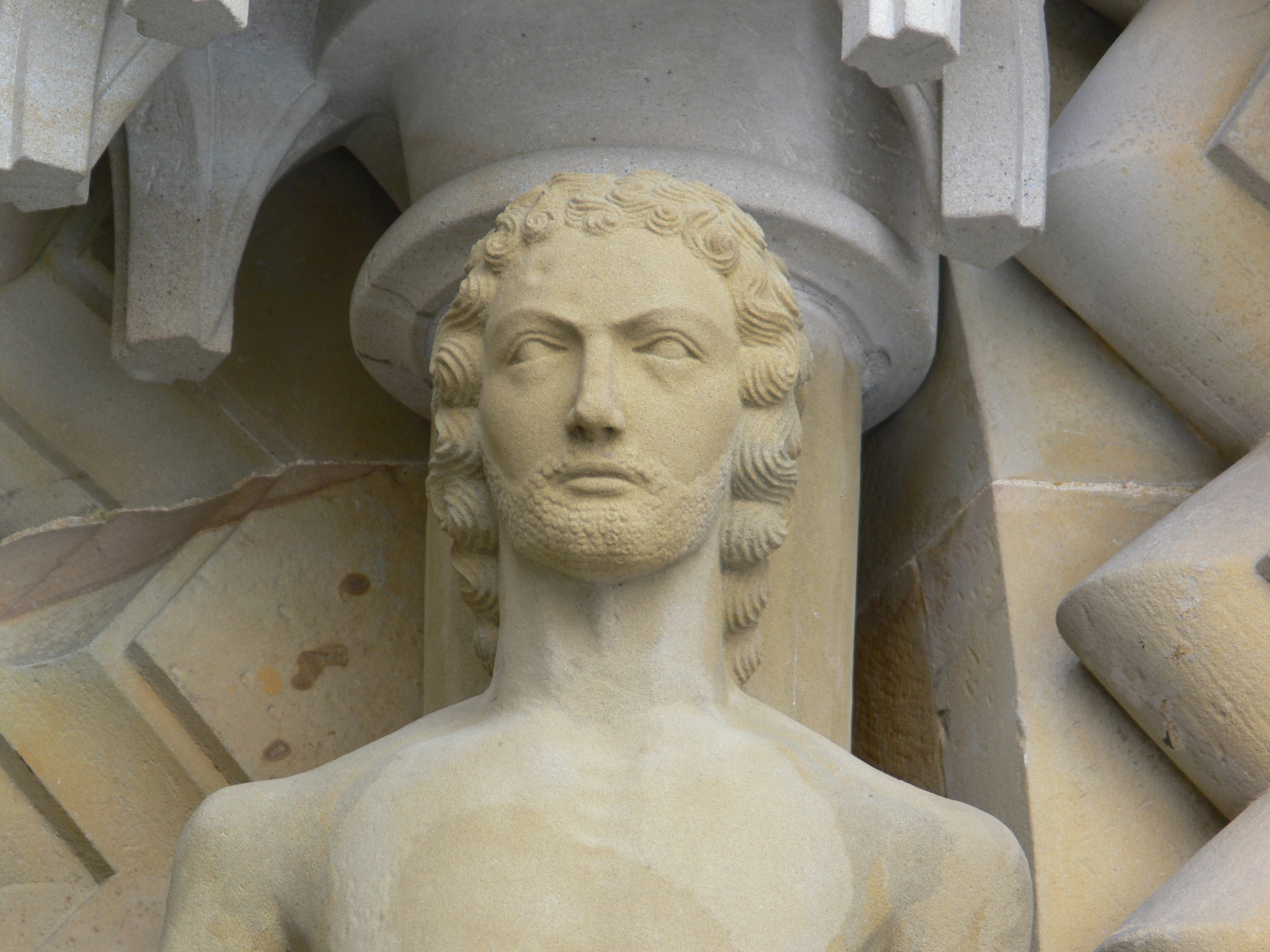 Adam gate at Bamberg Cathedral sights of Bamberg, Germany